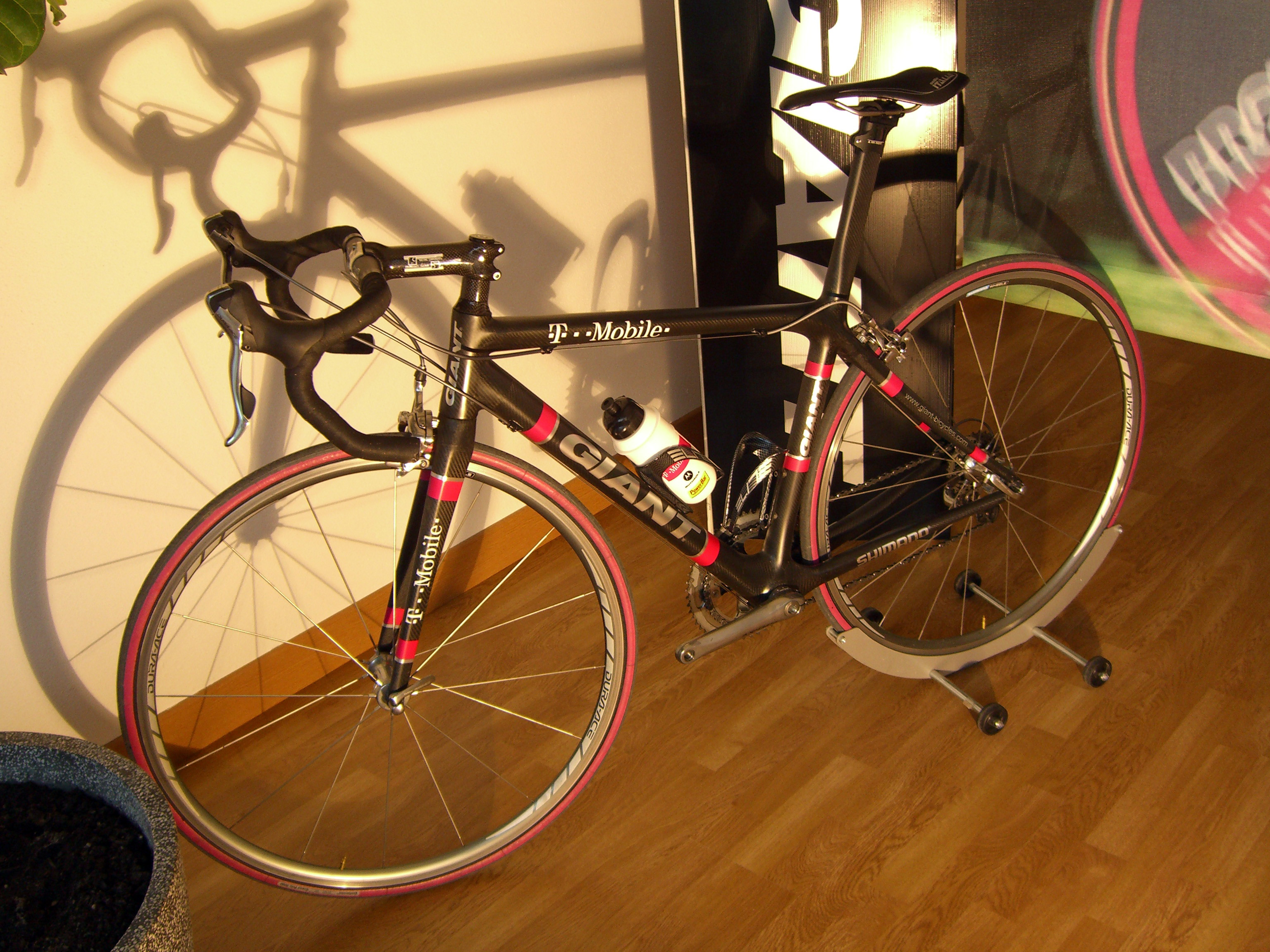 The Giant bike that Alexander Vinokourov used during the 2005 Tour de France.